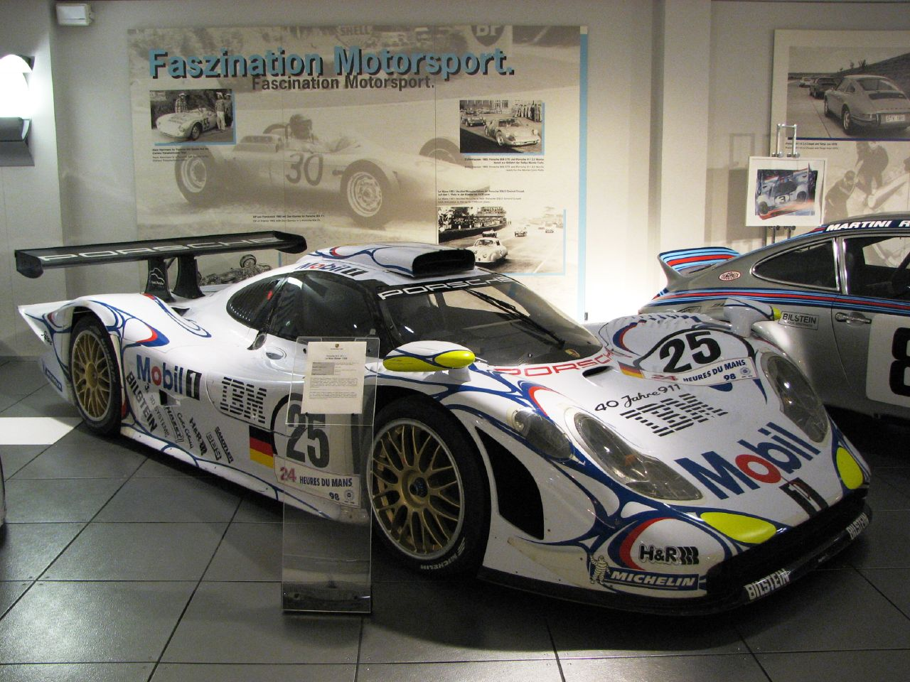 Porsche 911 GT1 '98 #25.jpg Porsche Museum Native namePorsche-MuseumLocationStuttgartCoordinates48° 50′ 07″ N, 9° 09′ 06″ E Established1976 (old museum) 2009 (new museum)Web page control : Q328623 VIAF: 138511768 GND: 2087859-X SUDOC: 155641123